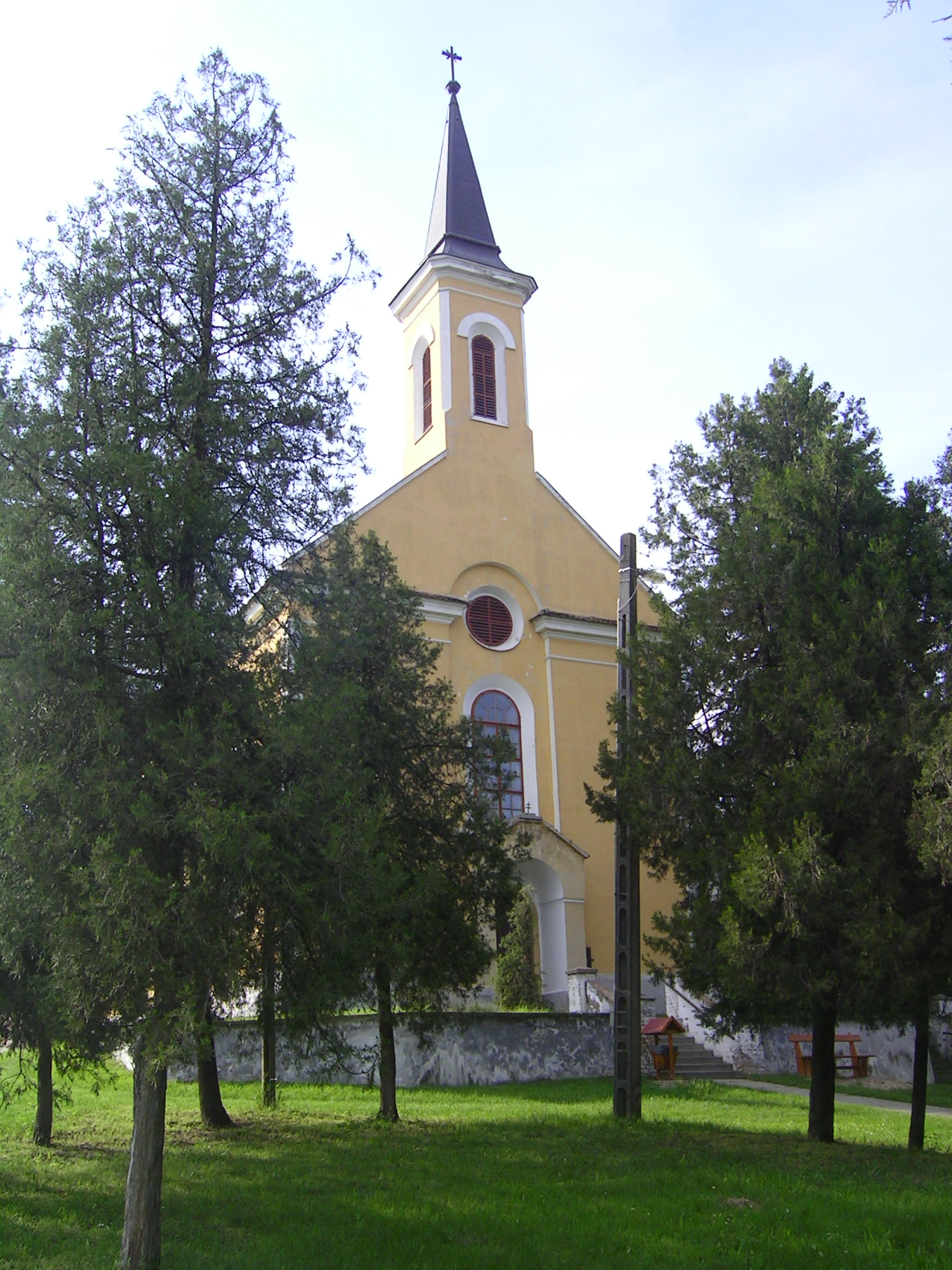 Roman catholic church in Bár, Hungary